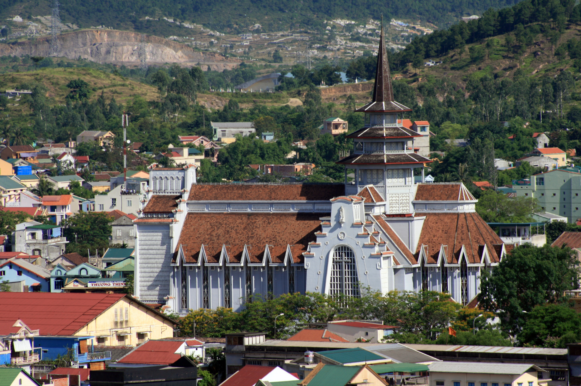 Hue Anglican Church in Hue city, Vietnam.